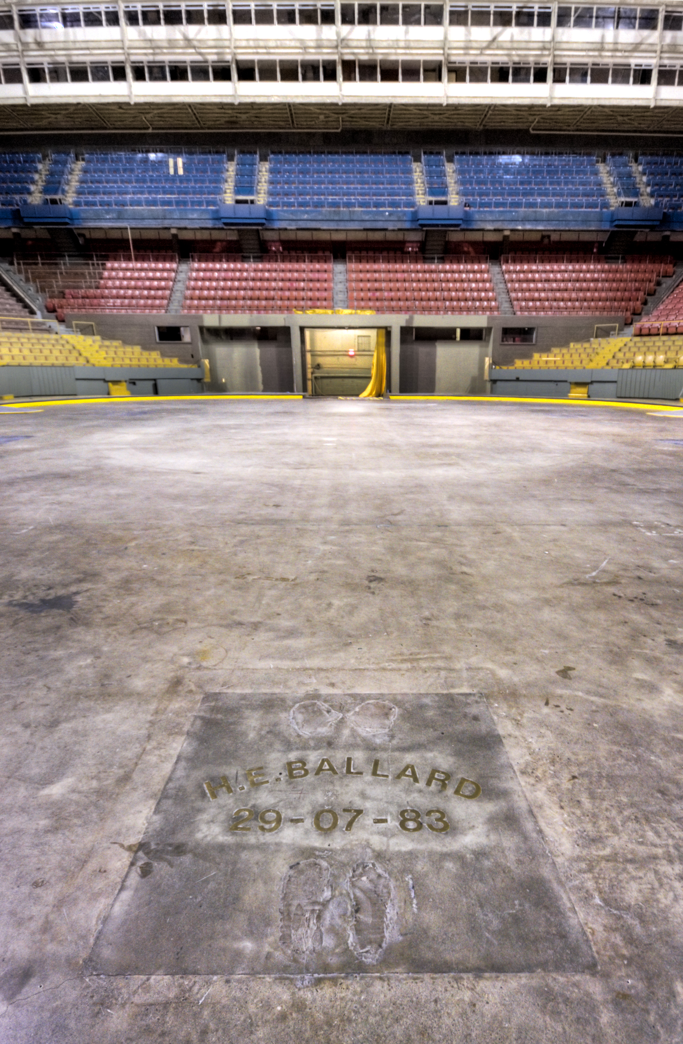 Hand and Feet prints at centre ice, MLG. 29-07-1983 "H.E. BALLARD" 29-07-83